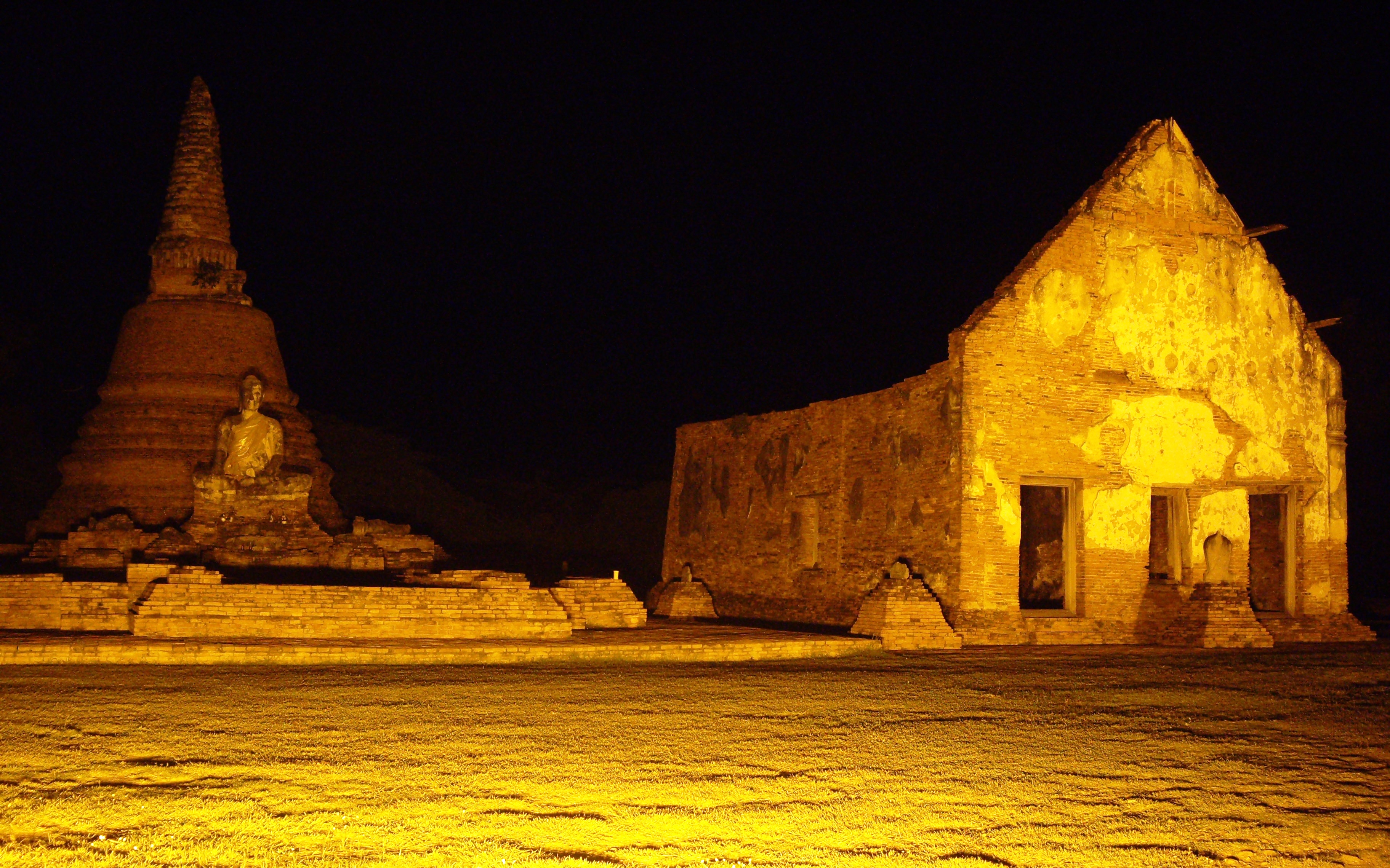 Wat Worachettharam